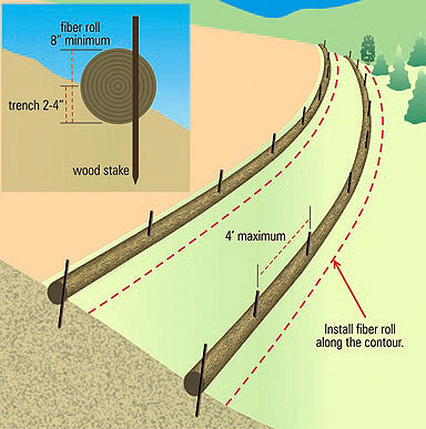 Illustration of a fiber roll installation on a construction site, from U.S. EPA publication, "Developing Your Stormwater Pollution Prevention Plan: A Guide for Construction Sites." Document No. EPA-833-R-060-04.